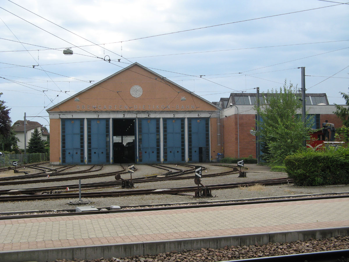 The BDWM depot and workshop at Bremgarten train station, prior to its extension in 2010. A similar photograph after the extension can be found at Bremgarten train station 02.jpg.